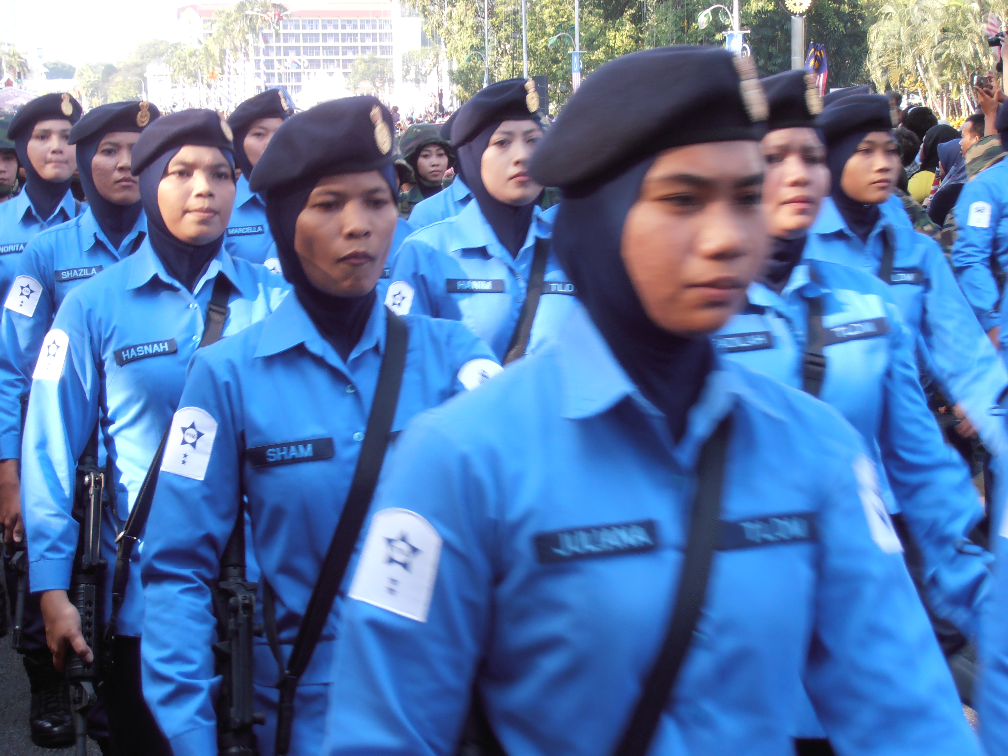 The female detachment of Royal Malaysian Navy on parade during the 55th National Day Parade of Malaysia at Merdeka Square, Kuala Lumpur.